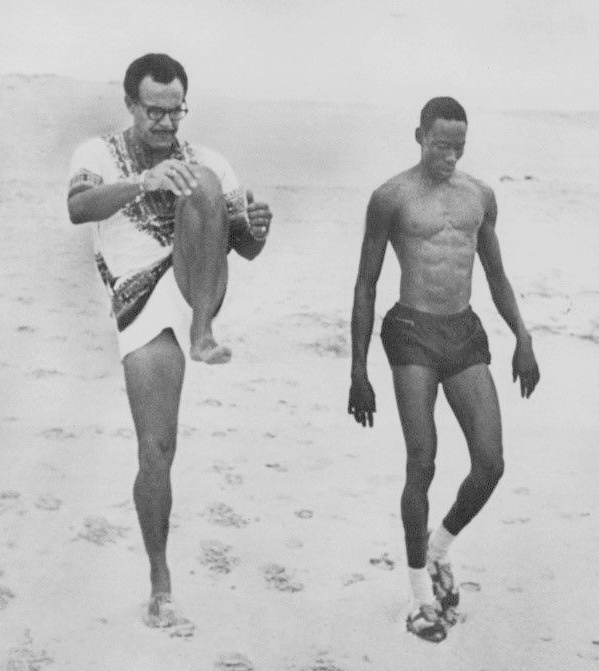 LG18 1972 Wire Photo MAL WHITFIELD HUSSEIN ANGELO Mogadishu Beach Olympic Champs